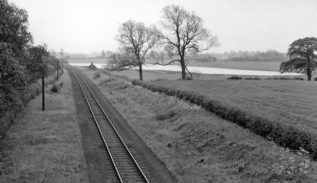 Site of Billinge Green Halt. View southwards, towards Middlewich and Sandbach; Sandbach - Middlewich - Northwich line. Halt closed 2/5/42, passenger service on the line ceased 4/1/60, but the line is still open for through freight traffic.